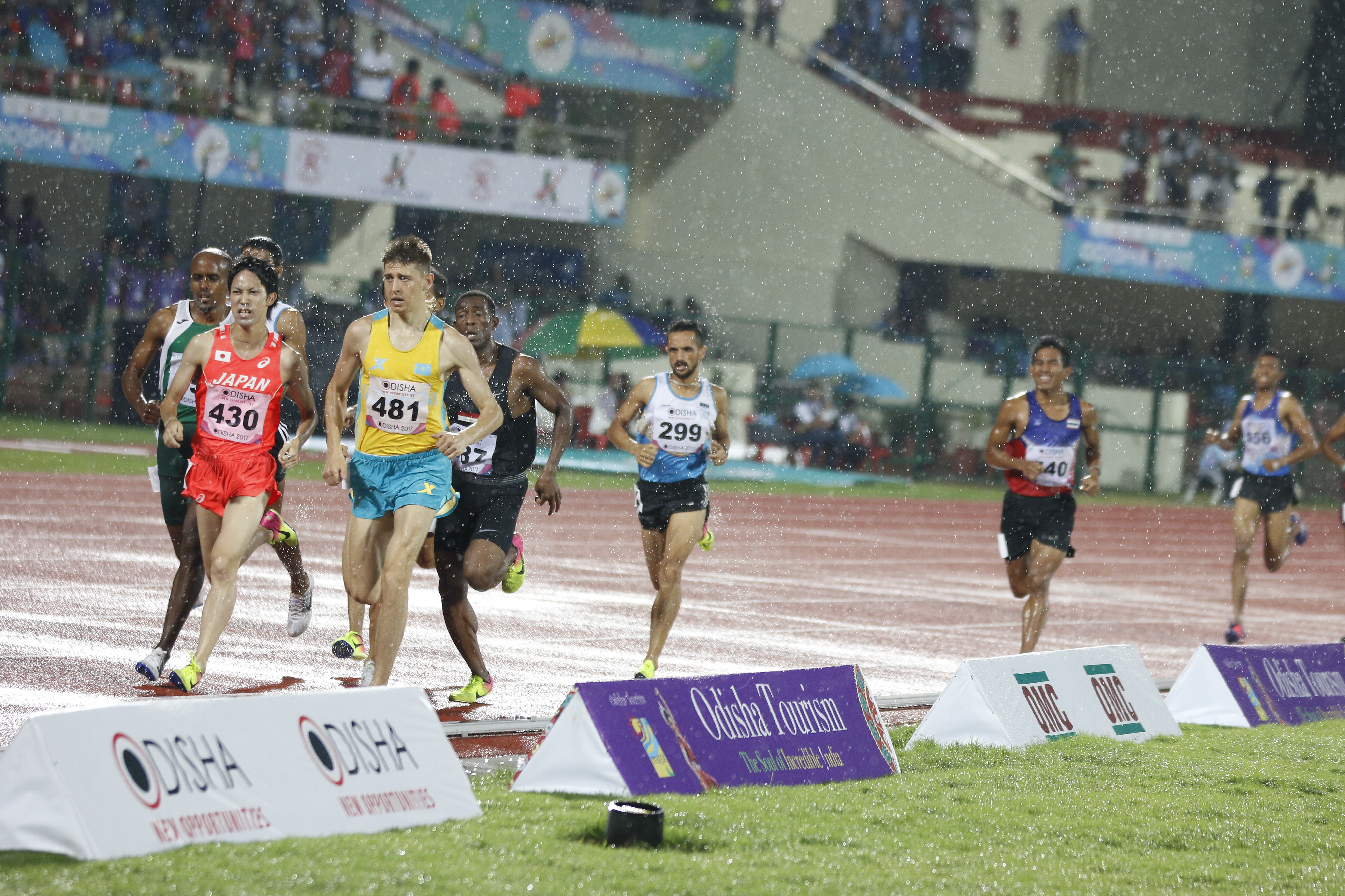 Athletes during 22nd Asian Athletics Championships in Bhubaneswar.